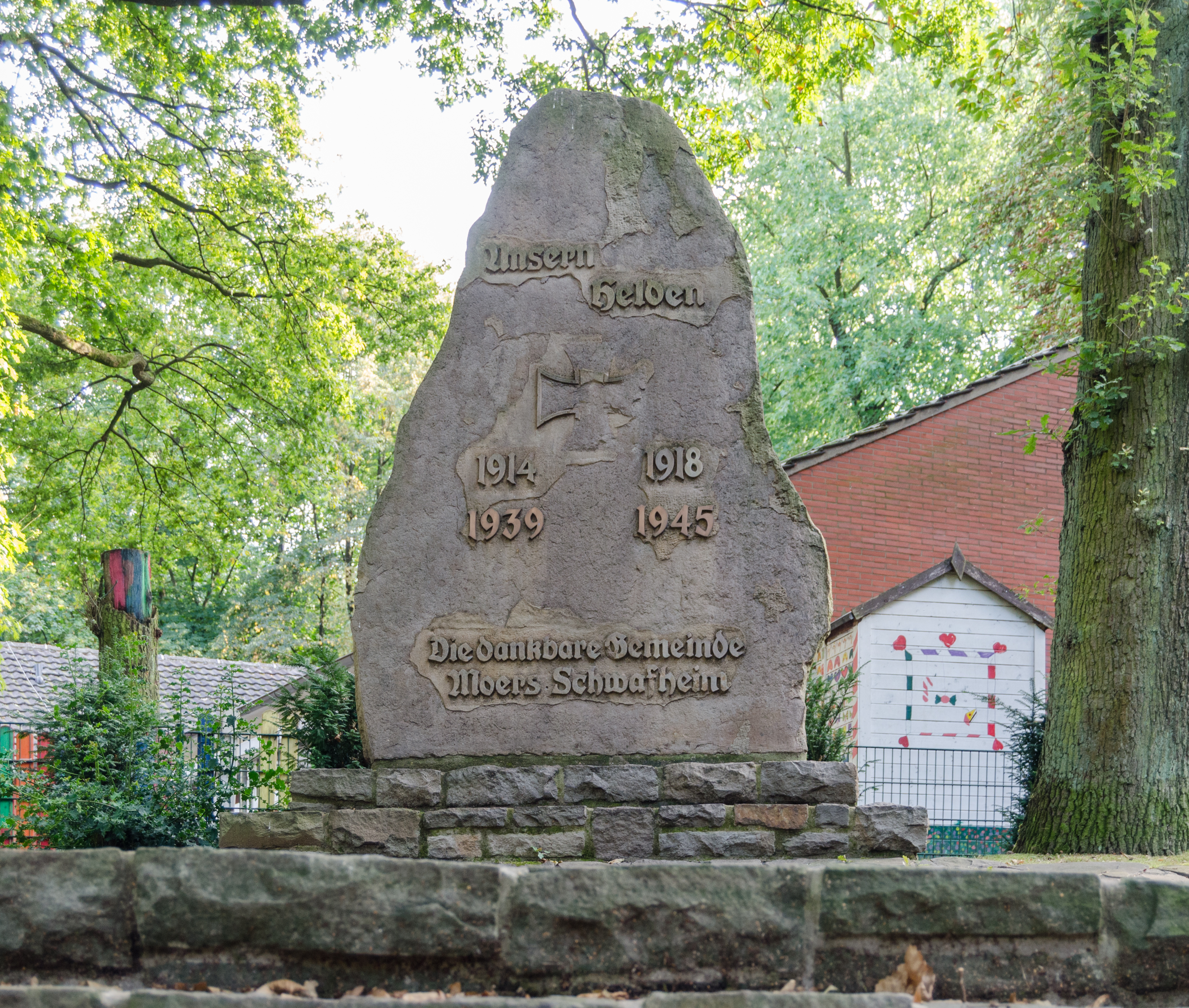 Moers (North Rhine-Westphalia, Germany) – village Schwafheim – war memorial (1936/37) – boulder